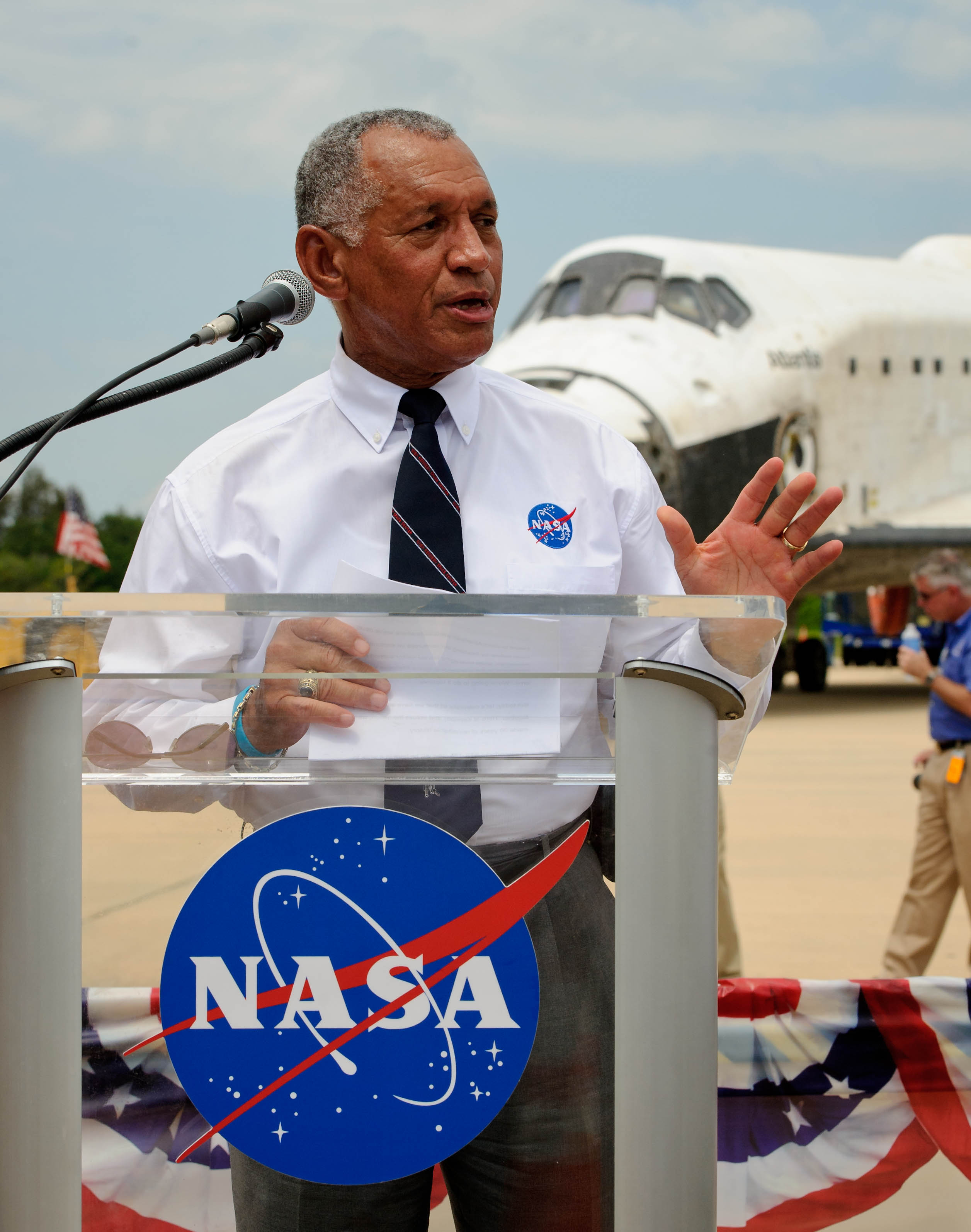 NASA administrator Charles Bolden addresses Kennedy Space Center employees and contractors as space shuttle Atlantis (STS-135) sits in the background near the Orbiter Processing Facility (OPF) at a wheels stop event, Thursday, July 21, 2011, in Cape Canaveral, Florida Atlantis returned to Kennedy early Thursday following a 13-day mission to the International Space Station (ISS) marking the end of the 30-year Space Shuttle Program.